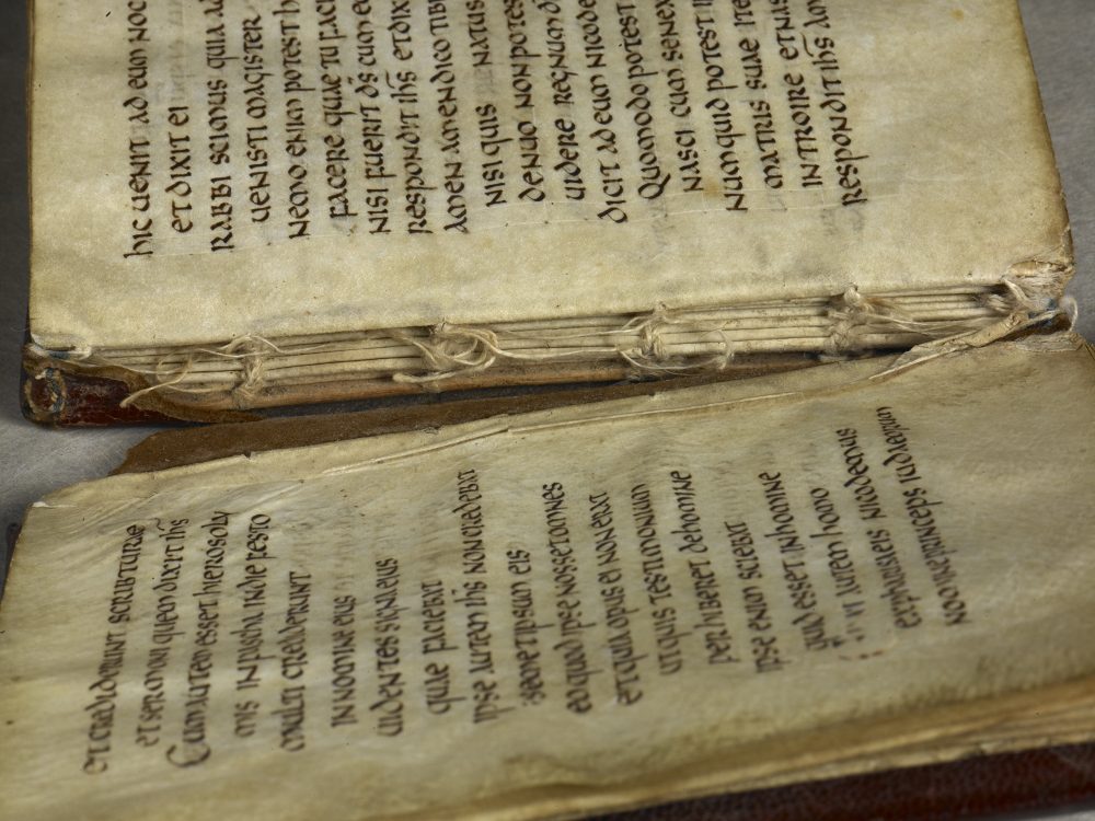 Unspecified; Caption: Sewing; Colour: Unspecified; Edge: Unspecified